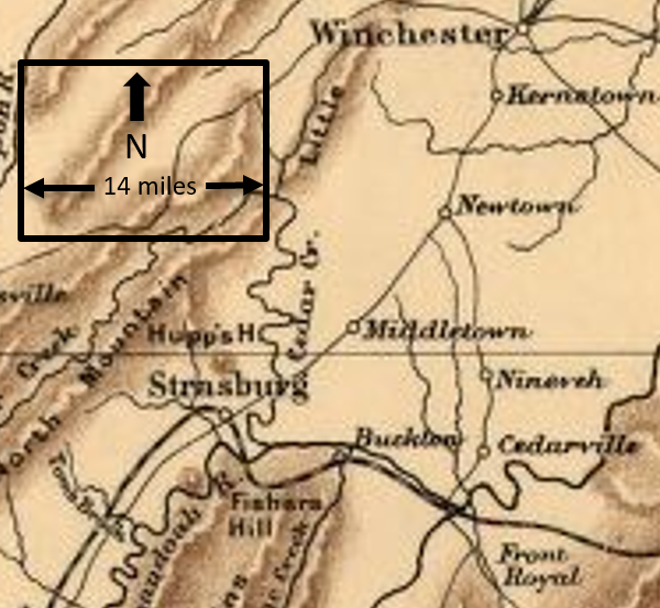 This is a map of Winchester - Front Royal - Fisher's Hill area in Virginia during the American Civil War. It was first published in 1912.